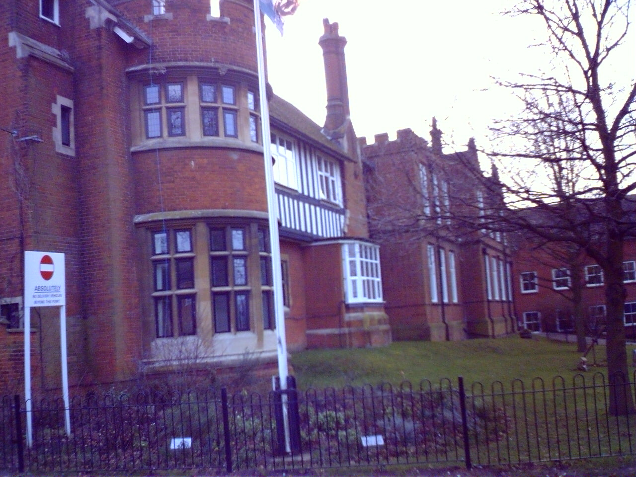 Holcombe Manor, the oldest building of Chatham Grammar School for Boys, Chatham, Kent, England Photograph taken by Gary Kirk on 24th Februaruy 2006 with the built-in camera of an iPAQ RX3715.